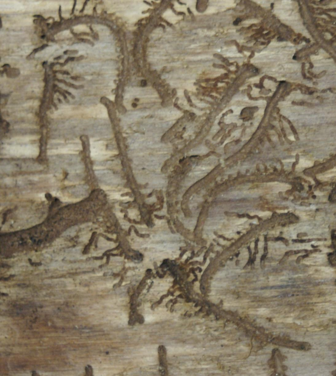 Pityogenes_chalcographus_Galleries_Detail.